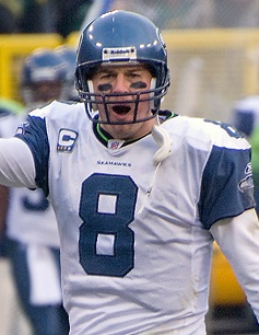 Seattle vs. Green Bay • December 27, 2009 at Lambeau Field in Green Bay, Wisconsin.